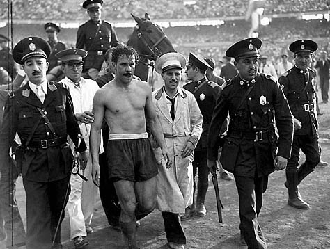 José Manuel Moreno retiring from field after a match between River and Independiente, in 1947.